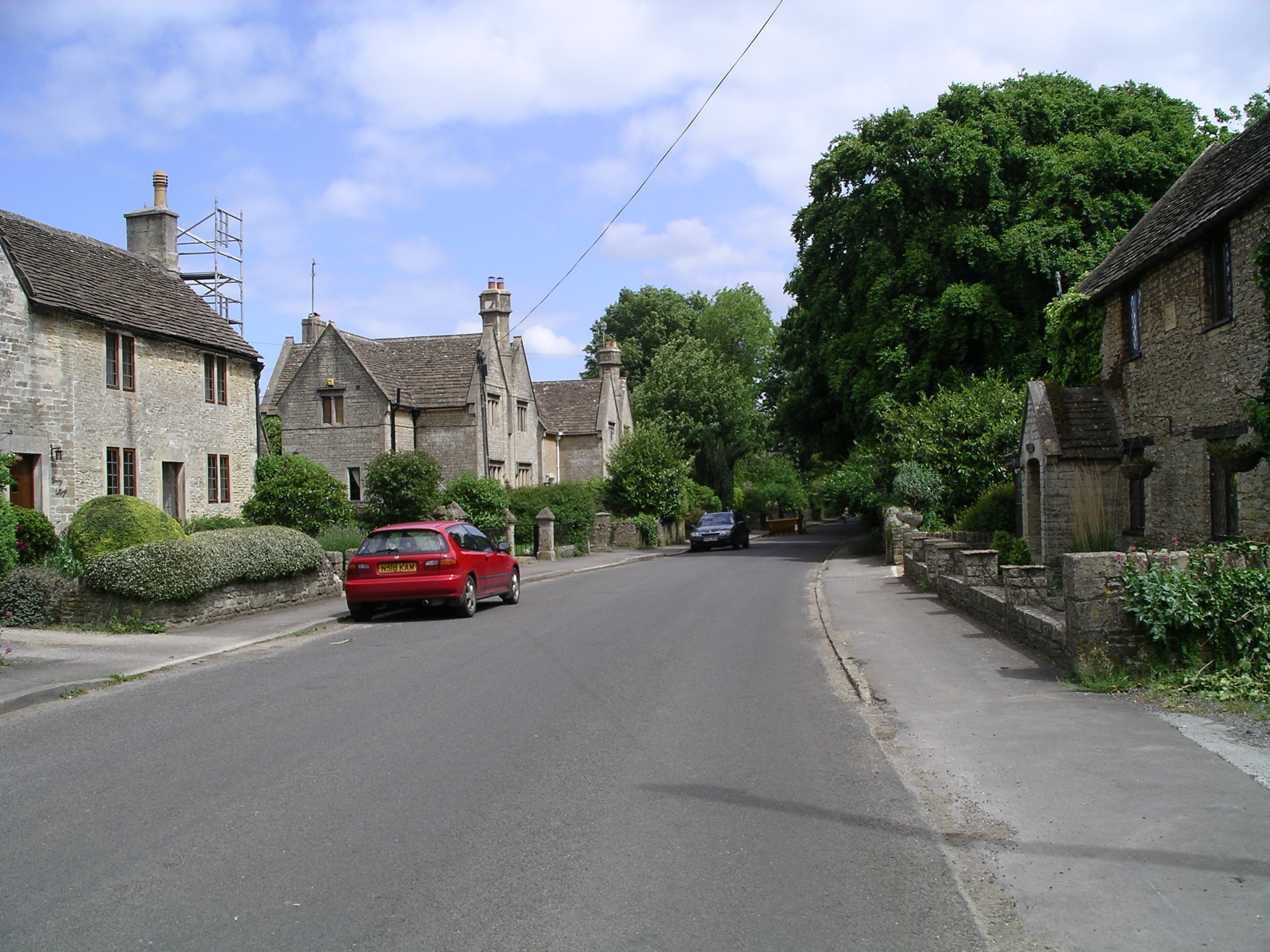 phot of Grittleton, Wiltshire, England